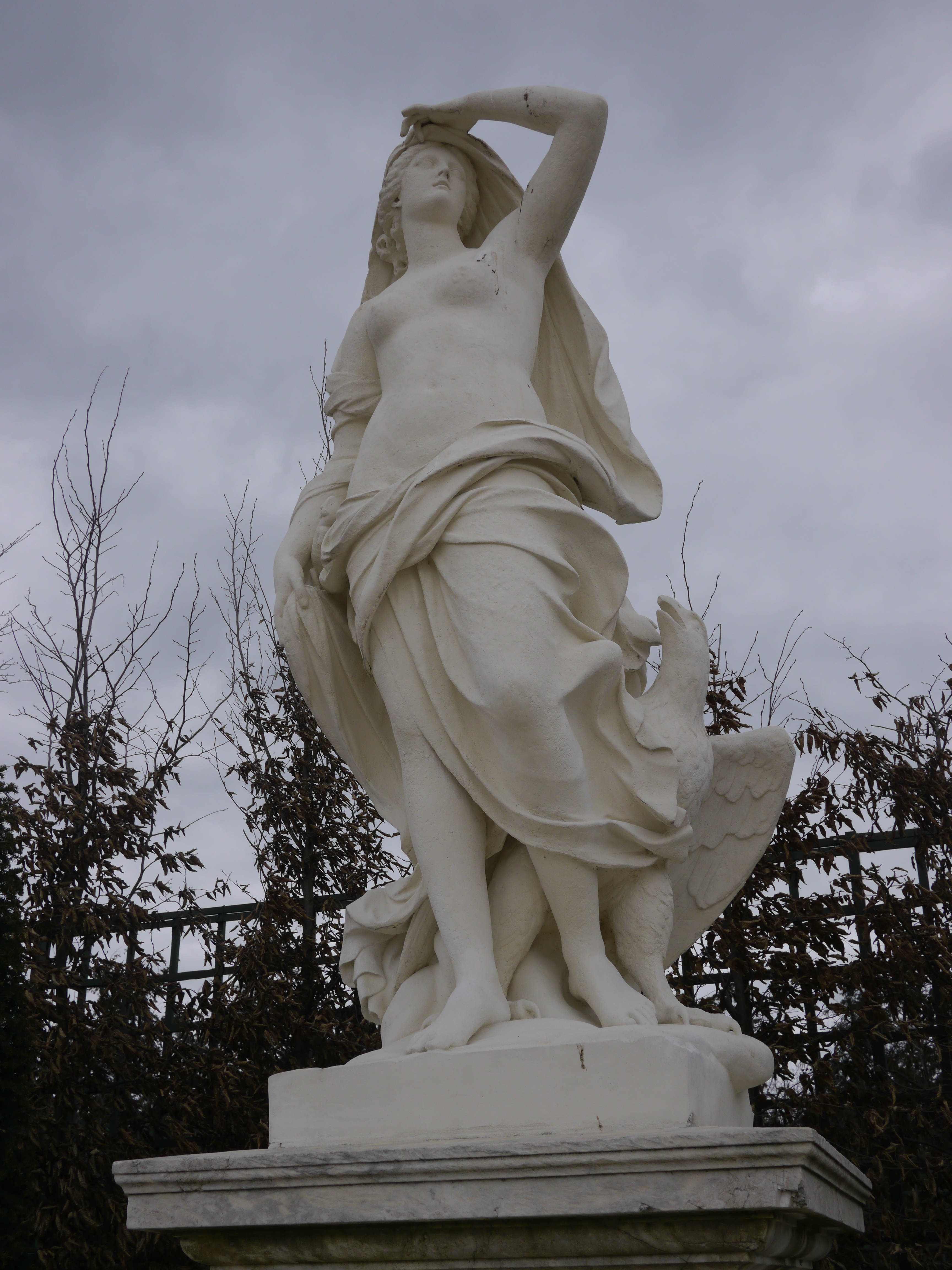 Photograph taken at the Park of the 'Château de Versailles' in France.